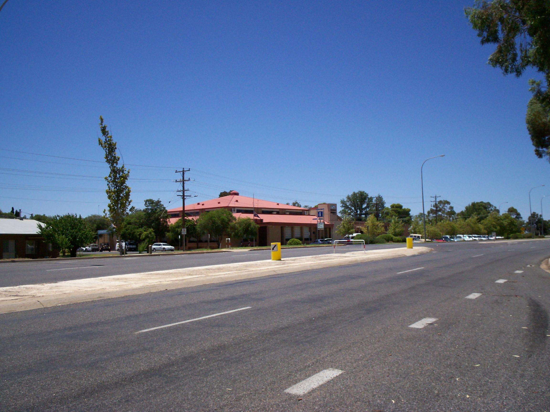 The Coomealla Memorial Sporting Club, at Dareton, New South Wales Photograph taken by myself, January 10, 2007